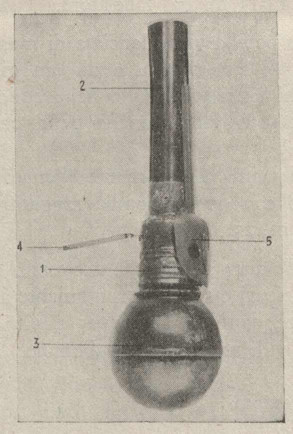 WW2 italian anti-tank grenade